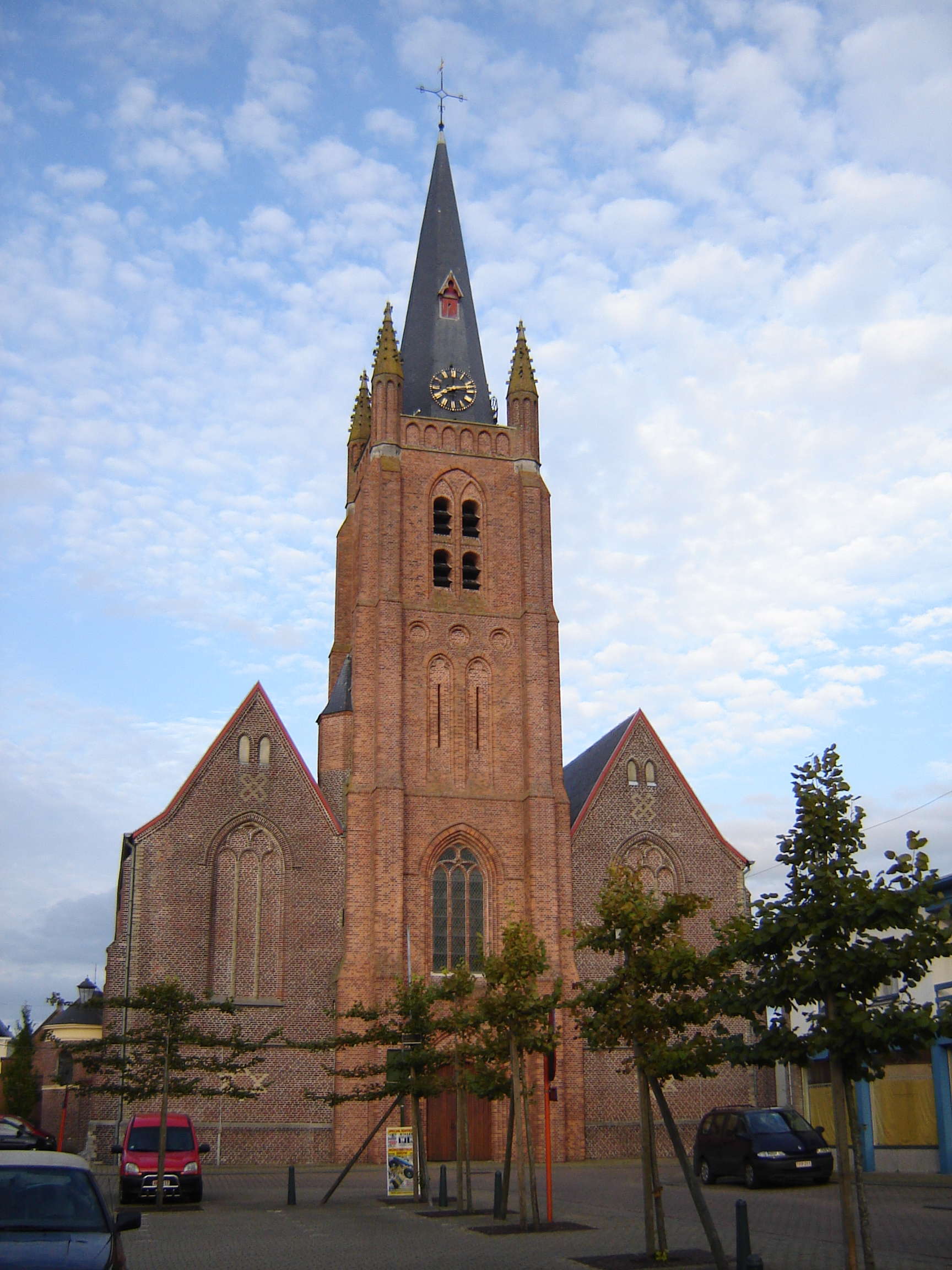 Church of Saint Amand in Wingene. Wingene, West Flanders, Belgium.